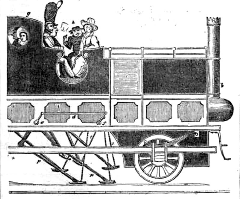 David Gordon's Steam Carriage, engraved ad from ca. 1824, based on Gordon's 1824 patent for a three wheeled Steam Carriage with a steam engine and propellers below for better up-hill performance. For a detailed description see Chest of Books.